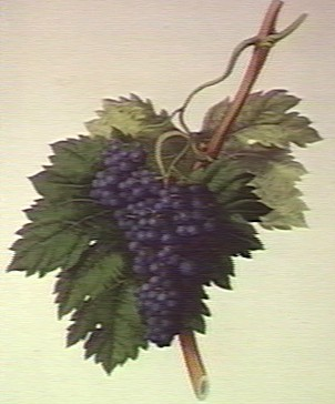 The Black Corinth grape (Vitis vinifera cv.): fruiting branch. Coloured etching by W. Clark, c. 1835, after W. Hooker.Iconographic Collections